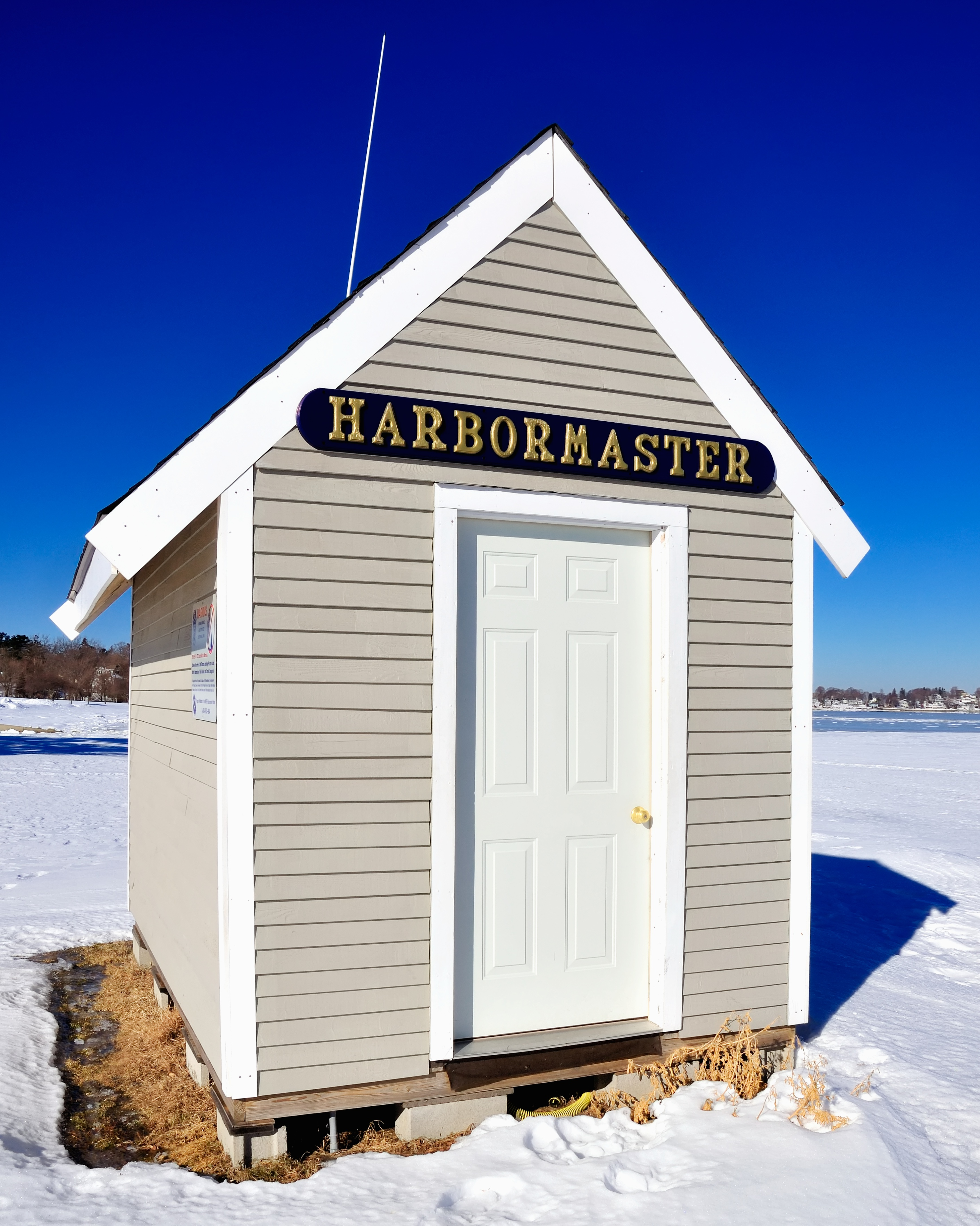 Hingham Harbor Master's shack on a snowy day in January, Hingham Harbor, Massachusetts